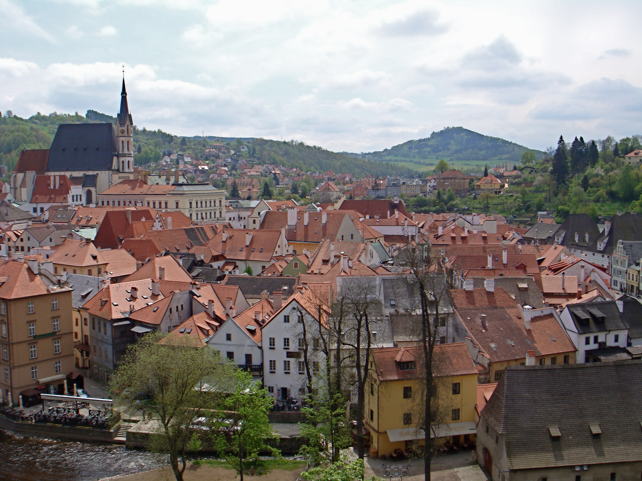 Historic Centre of Český Krumlov (Czech Republic)